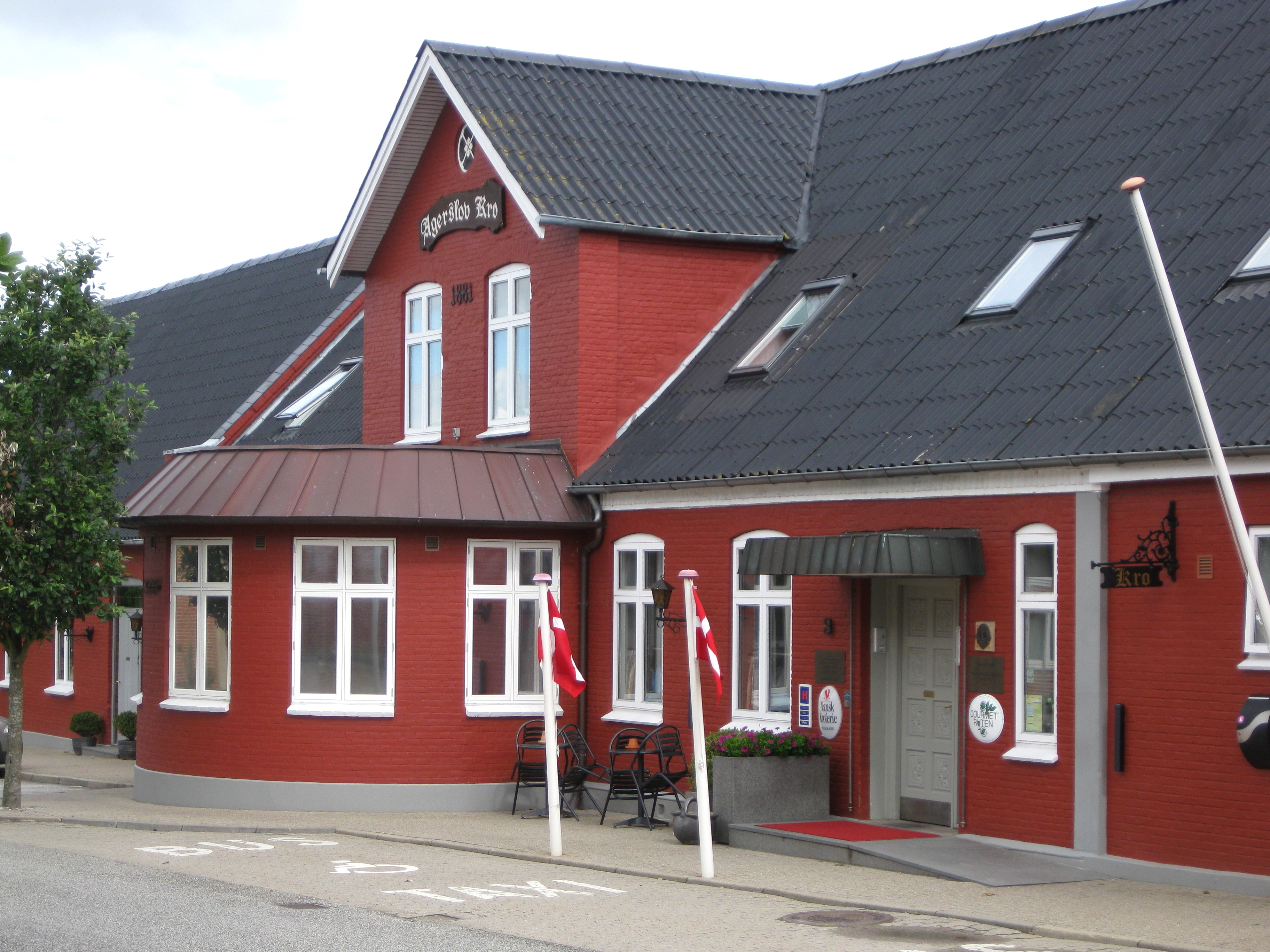 The inn "Agerskov Kro" in the small town "Agerskov". The town is located in Southern Jutland in south Denmark.